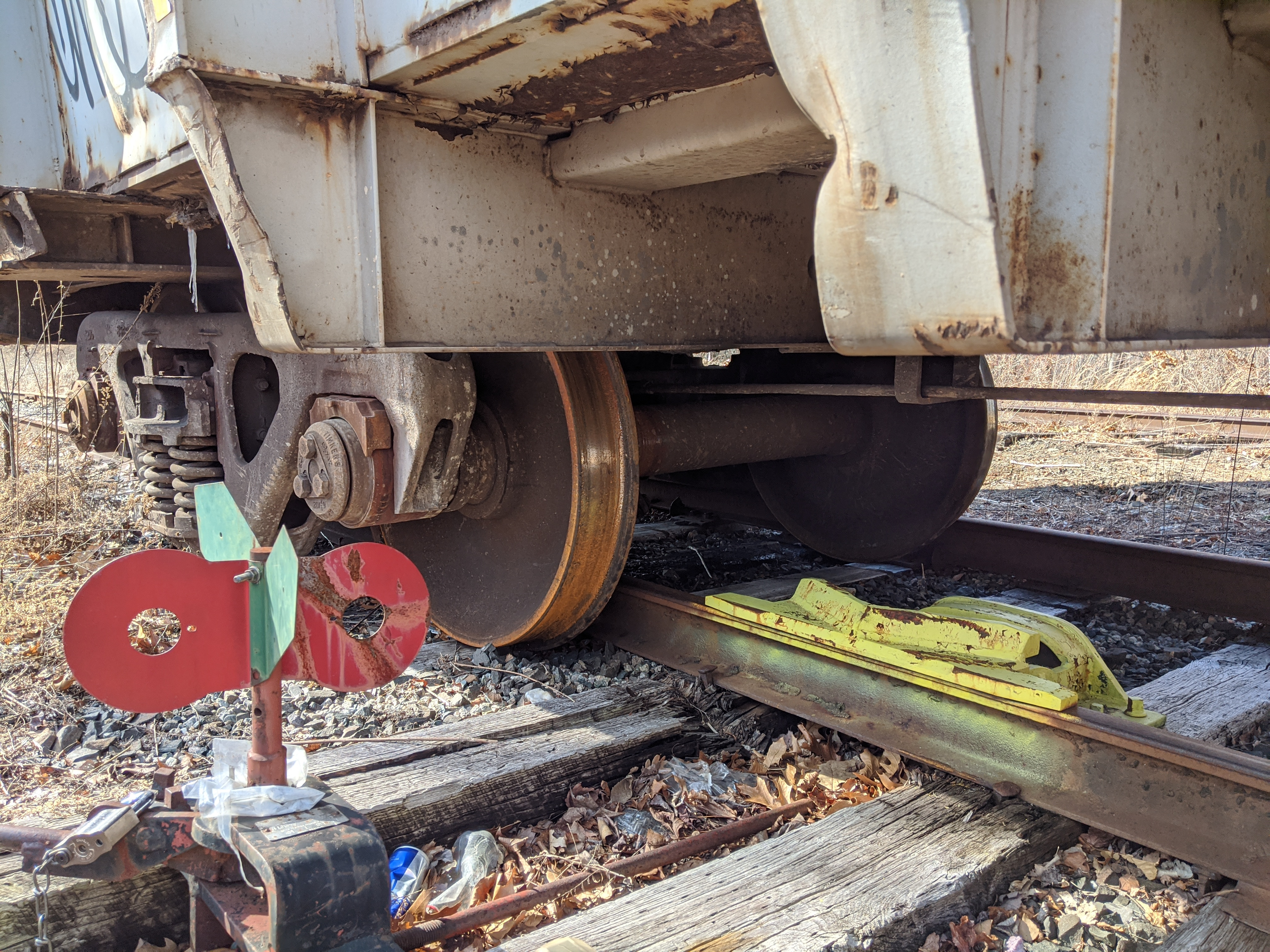 Derailed train car off tracks after being backed over a locked derail device, used to protect a section of track from runaway or unintended cars